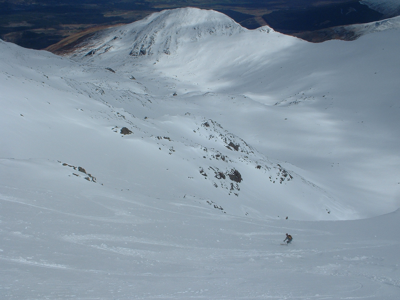 A skier in Summit Gully, one of the easier off piste runs on Aonach Mor